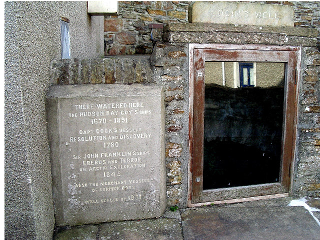 Login's well, Stromness. Used by Capt. Cook's and Sir Benjamin Franklin's vessels.